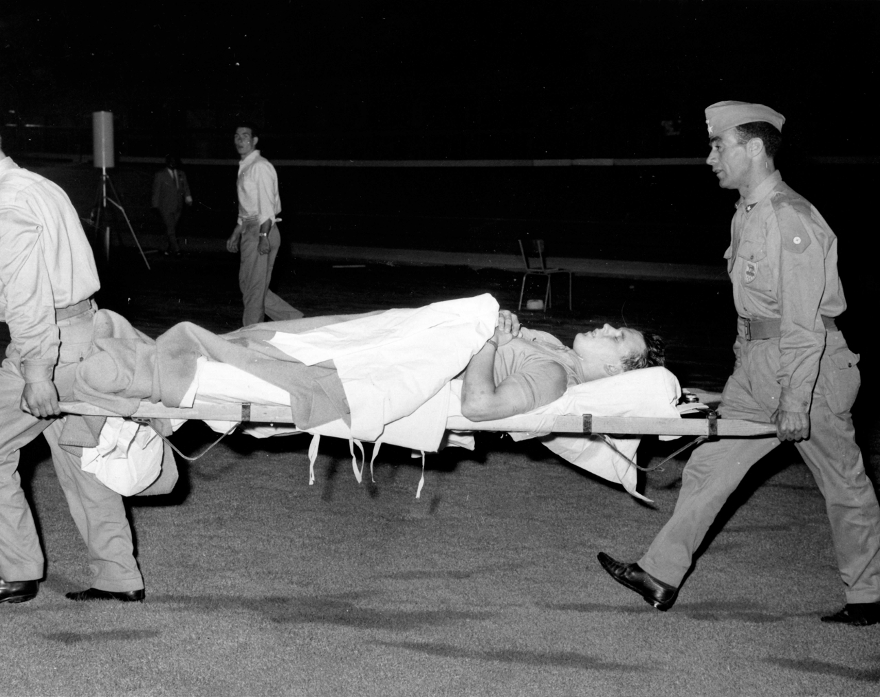 Rinus Paul at the Rome Olympics